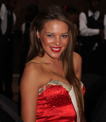 Miss Bolivia 2008 Jackelin Arias during Miss World 08